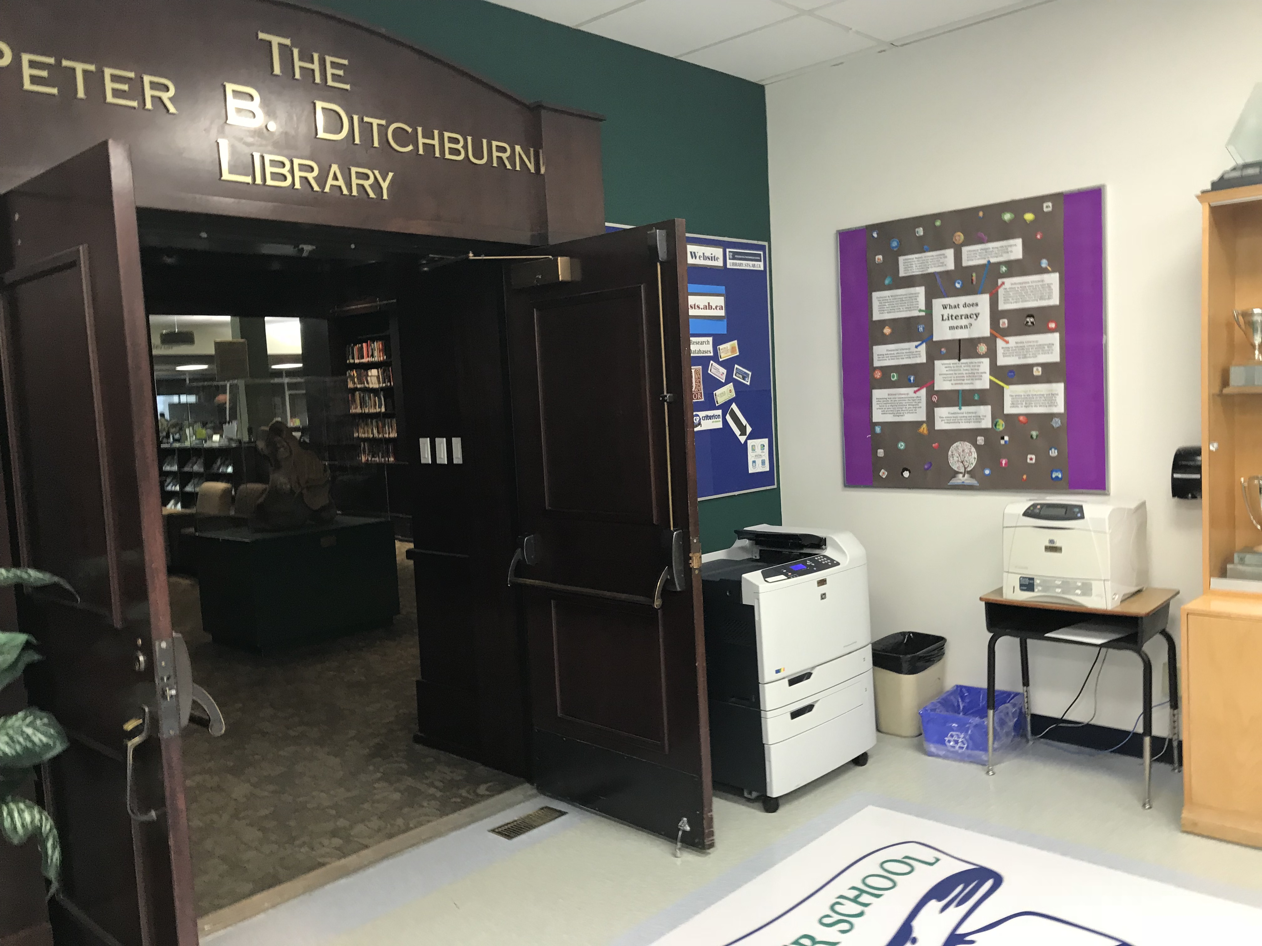 Photo of Library Entrance